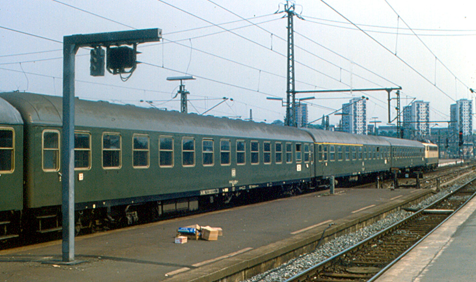 A train ready to leave Stuttgart Hauptbahnhof in 1979.